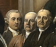 Detail of John Trumbull's painting, Declaration of Independence, depicting three of the signatories of the Declaration of Independence. The painting can be found on the back of the U.S. $2 bill. The original hangs in the US Capitol rotunda.